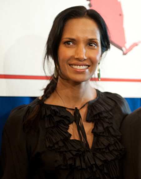 Padma Lakshmi in 2020